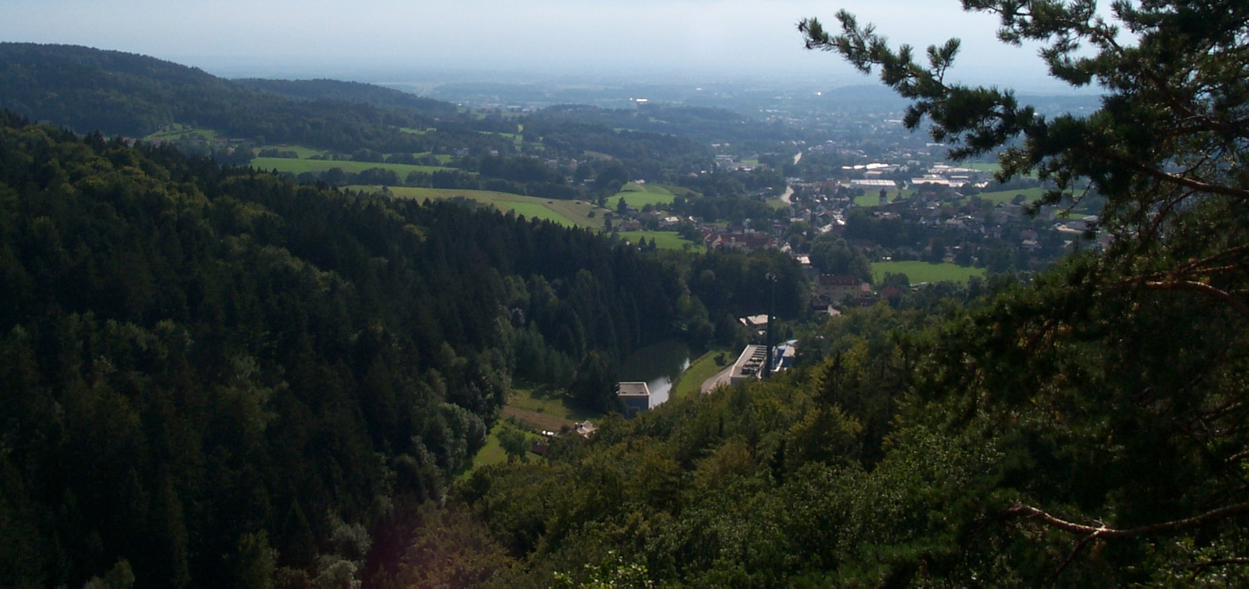 View from Maxfelsen to Deggendorf